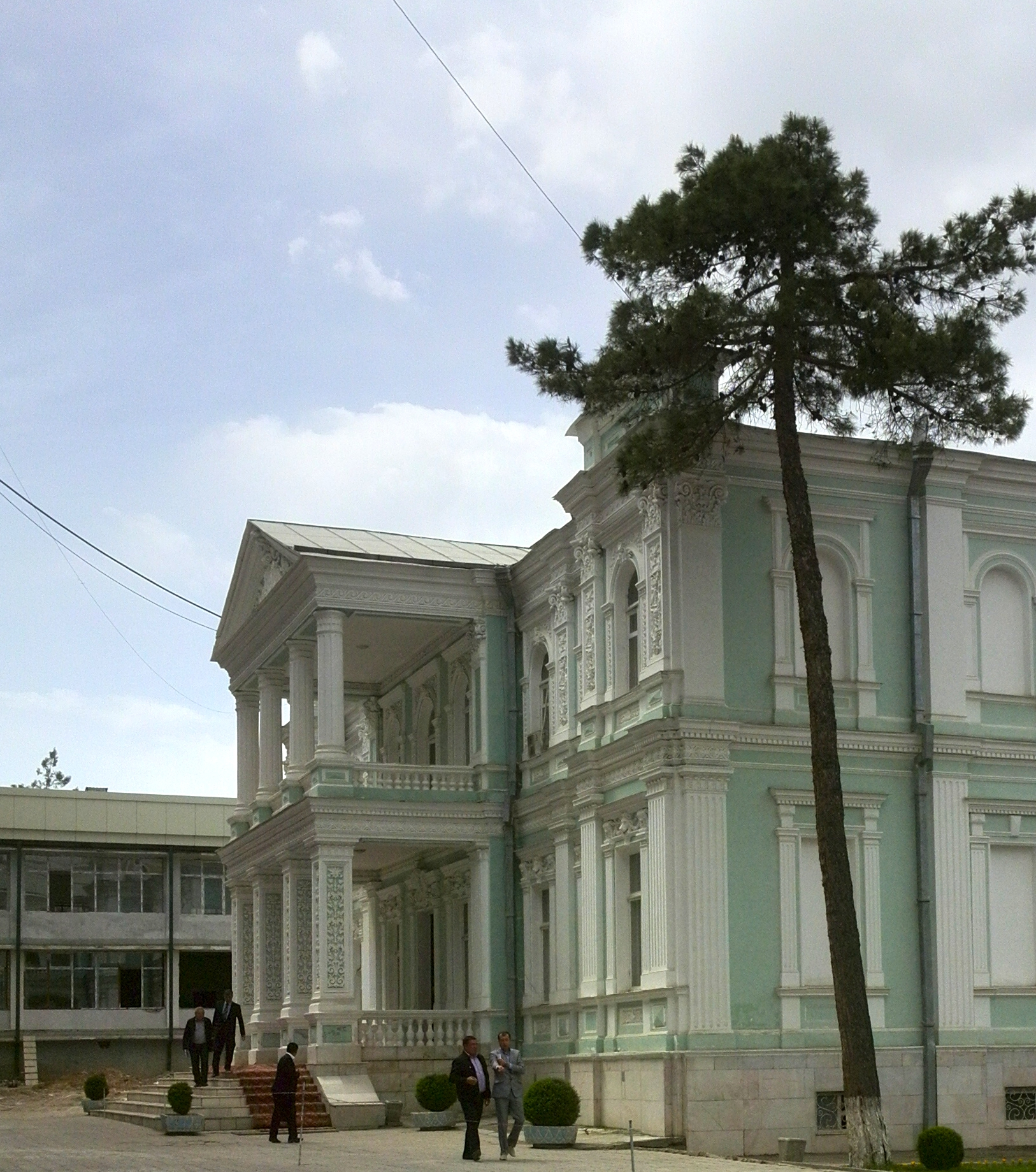 Administrative building of the Samarqand state university